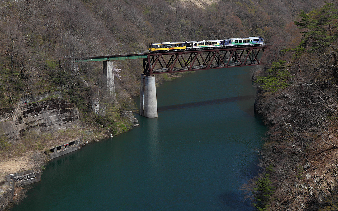 Aizu Railway Oza-Toro-Tembo Train (Type AT-100 + AT-350 + AT-400 DMU) on Ōkawa Bridge No.3